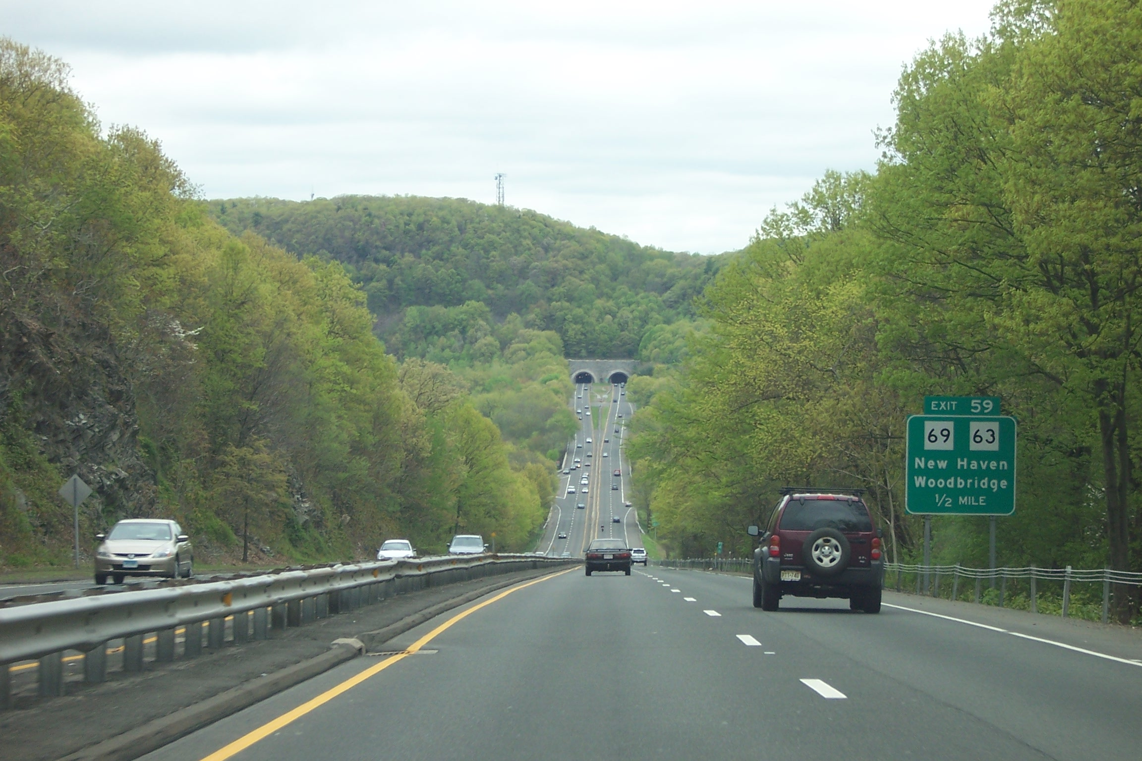 Travelling north on Wilbur Cross Parkway towards Exit 59 and the West Rock Tunnel